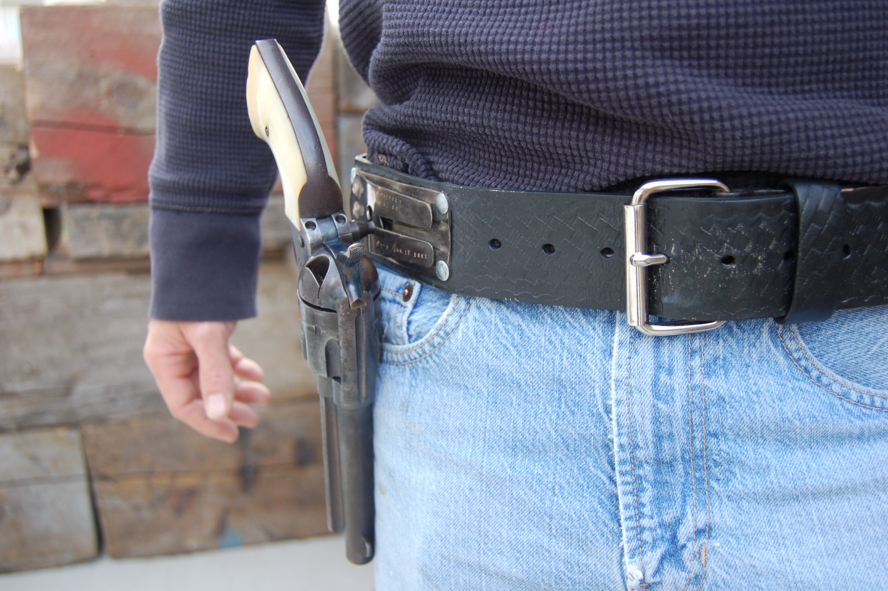 Colt Peacemaker Pistol hanging from a Bridgeport Rig